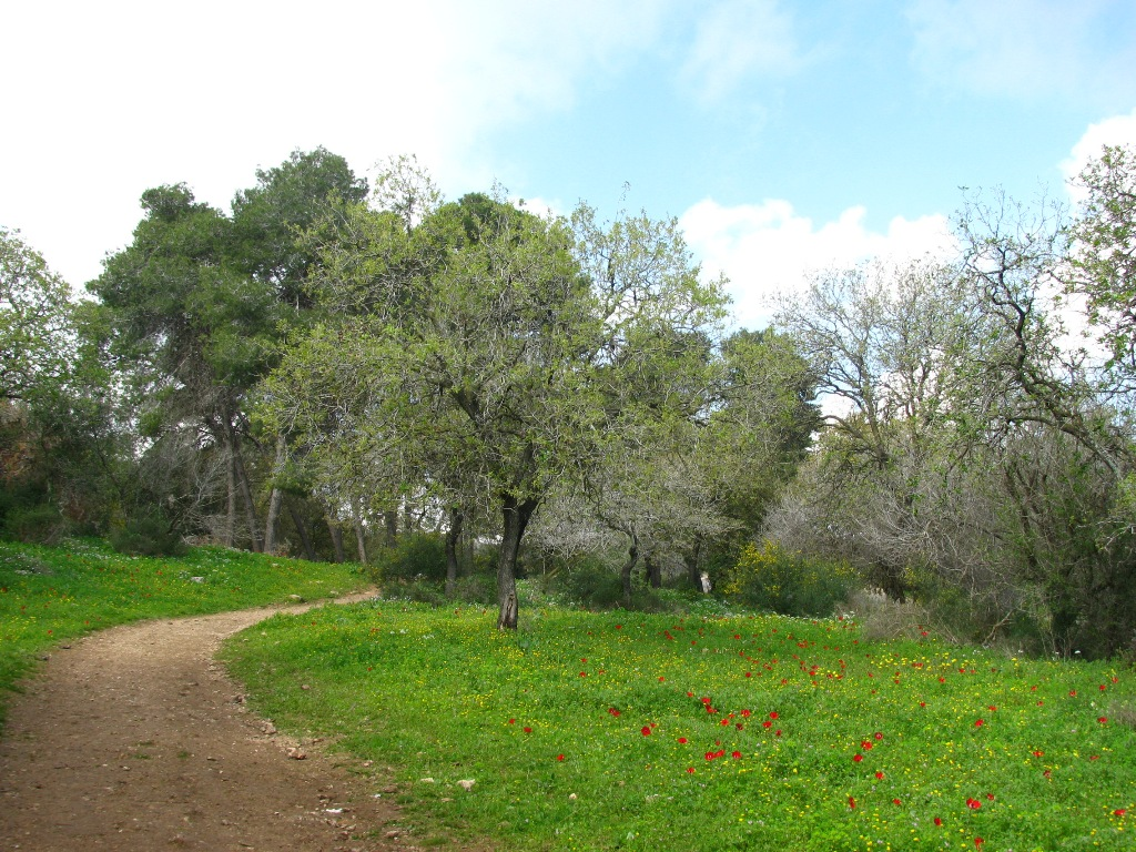 Oak grove blooming anemones